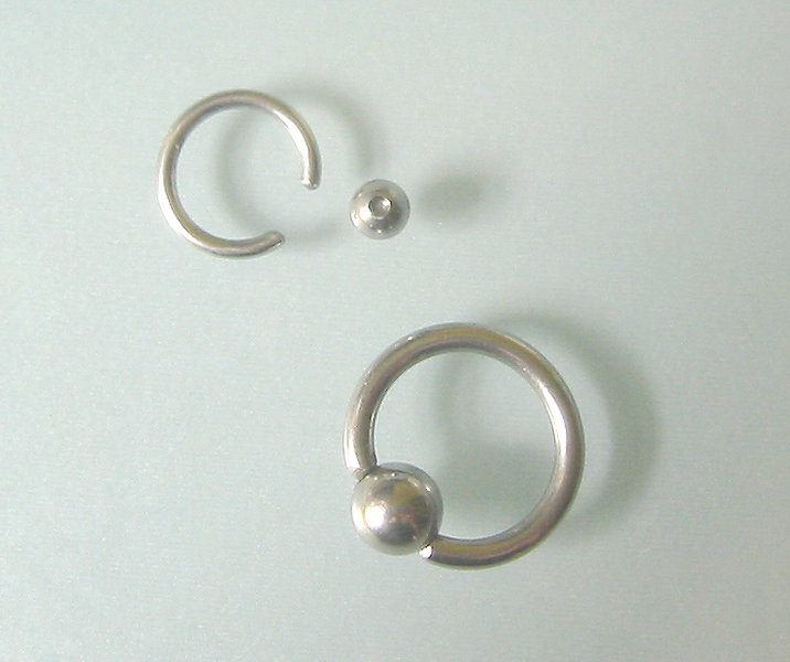 recorded by User:Nicor